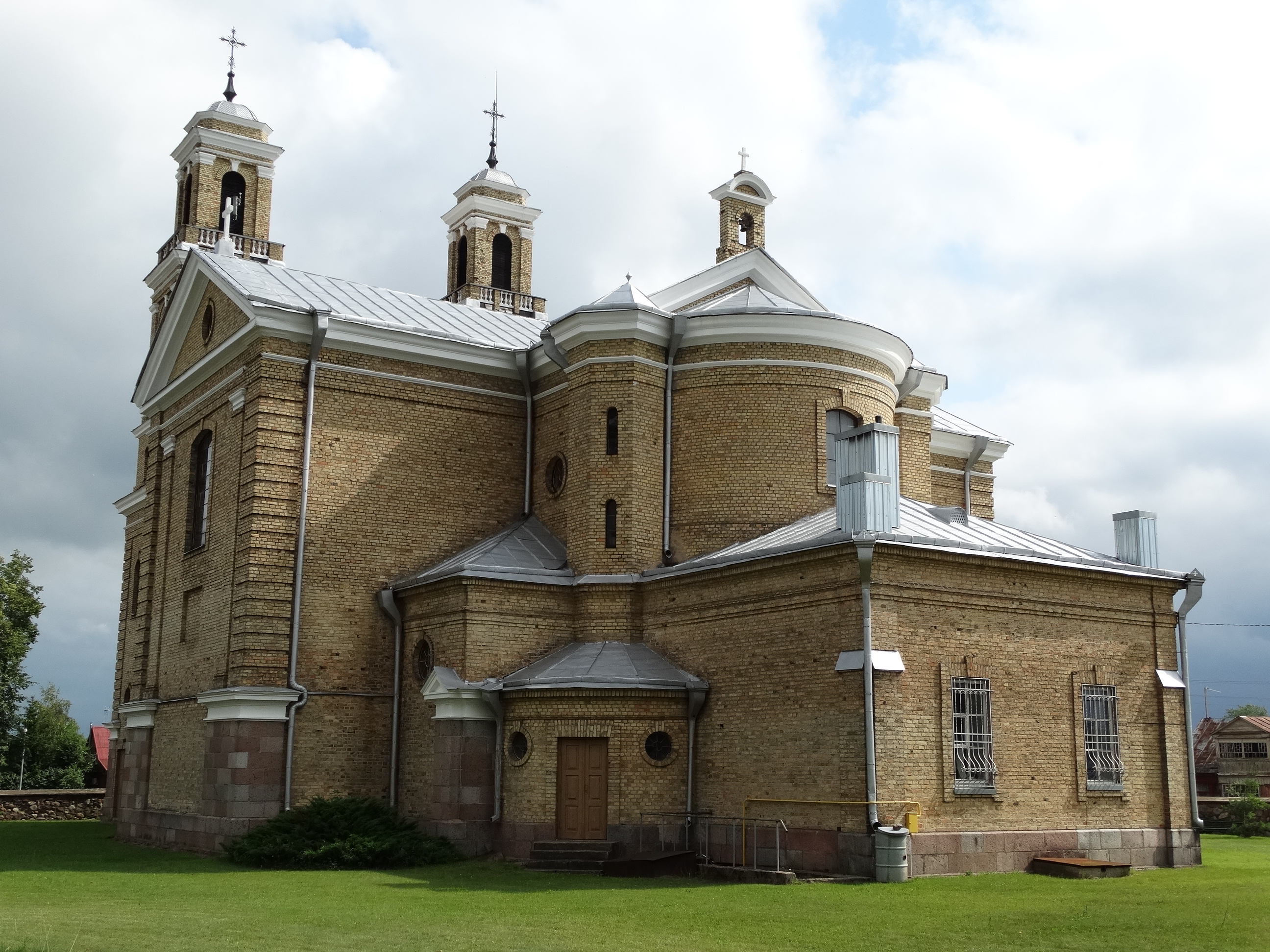 Vievis Catholic Church (backside view), Elektrėnai Municipality, Lithuania